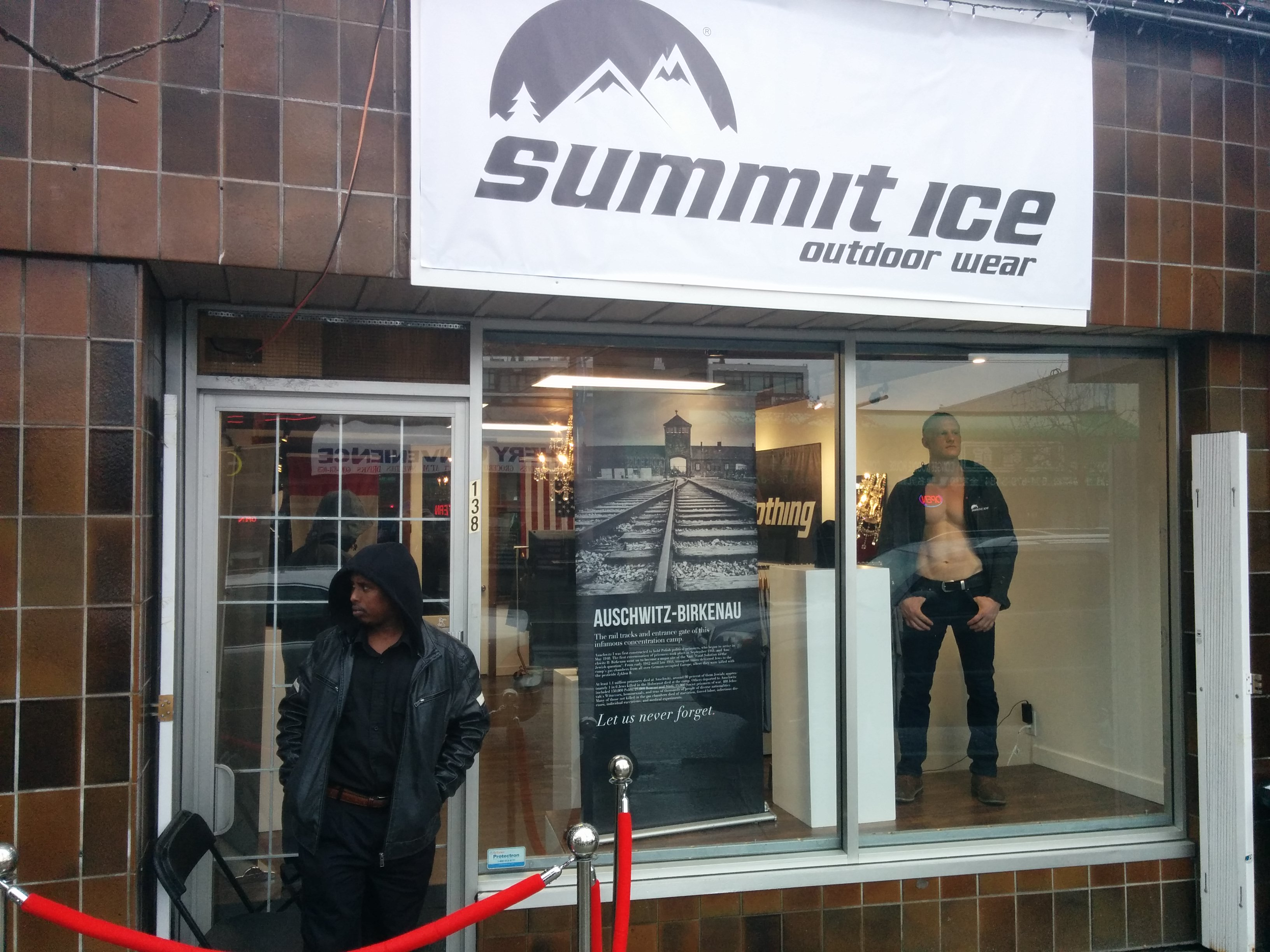 Summite Ice pop-up store in Vancouver, British Columbia, Canada on 26 March 2017.